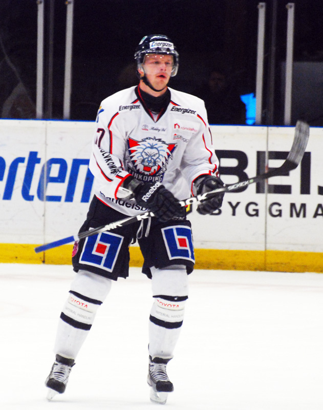 Carl Söderberg during a SHL game against AIK.